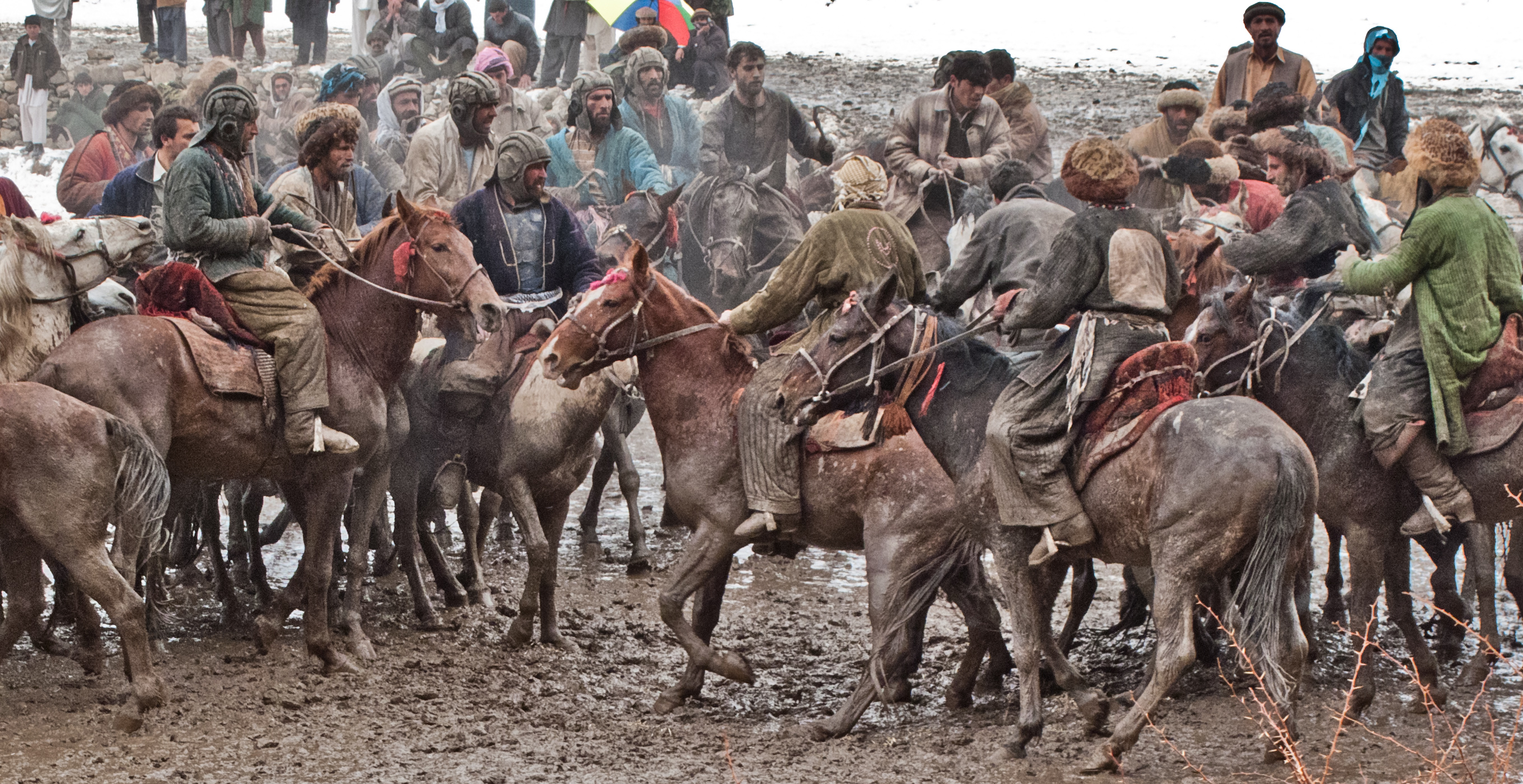 In many photos you see Soviet tanker helmets. Guess where they came from?